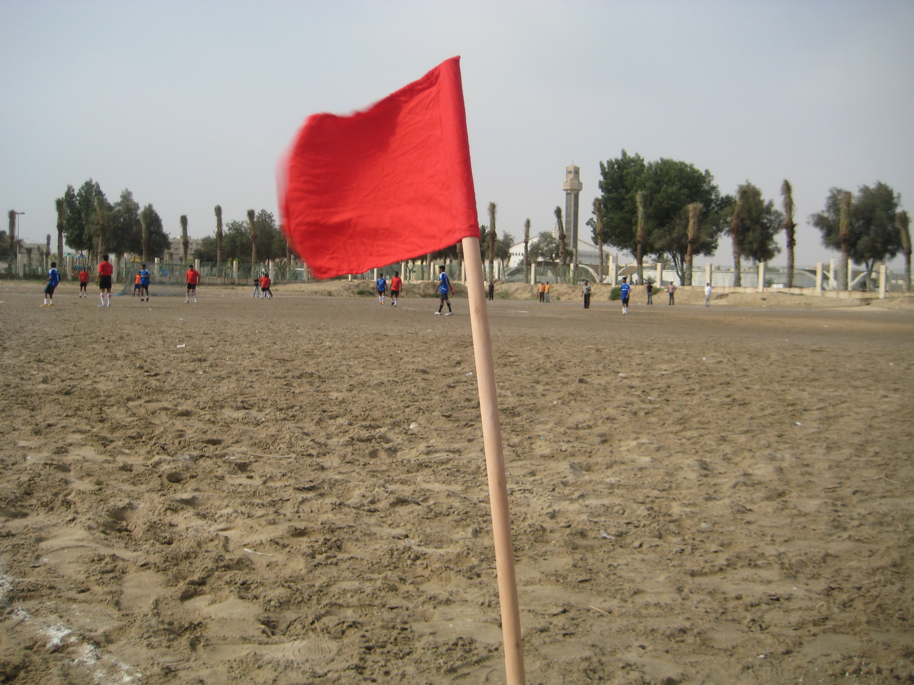 Red Flag